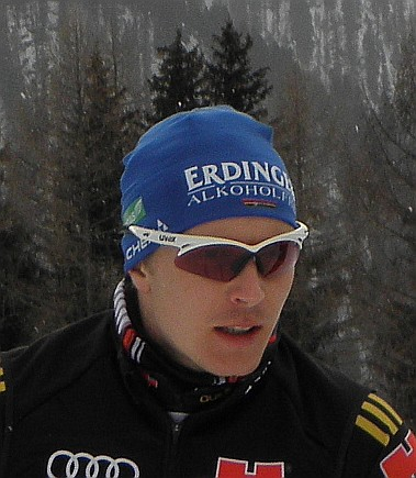 Andreas Birnbacher in Antholz, 21-01-2010